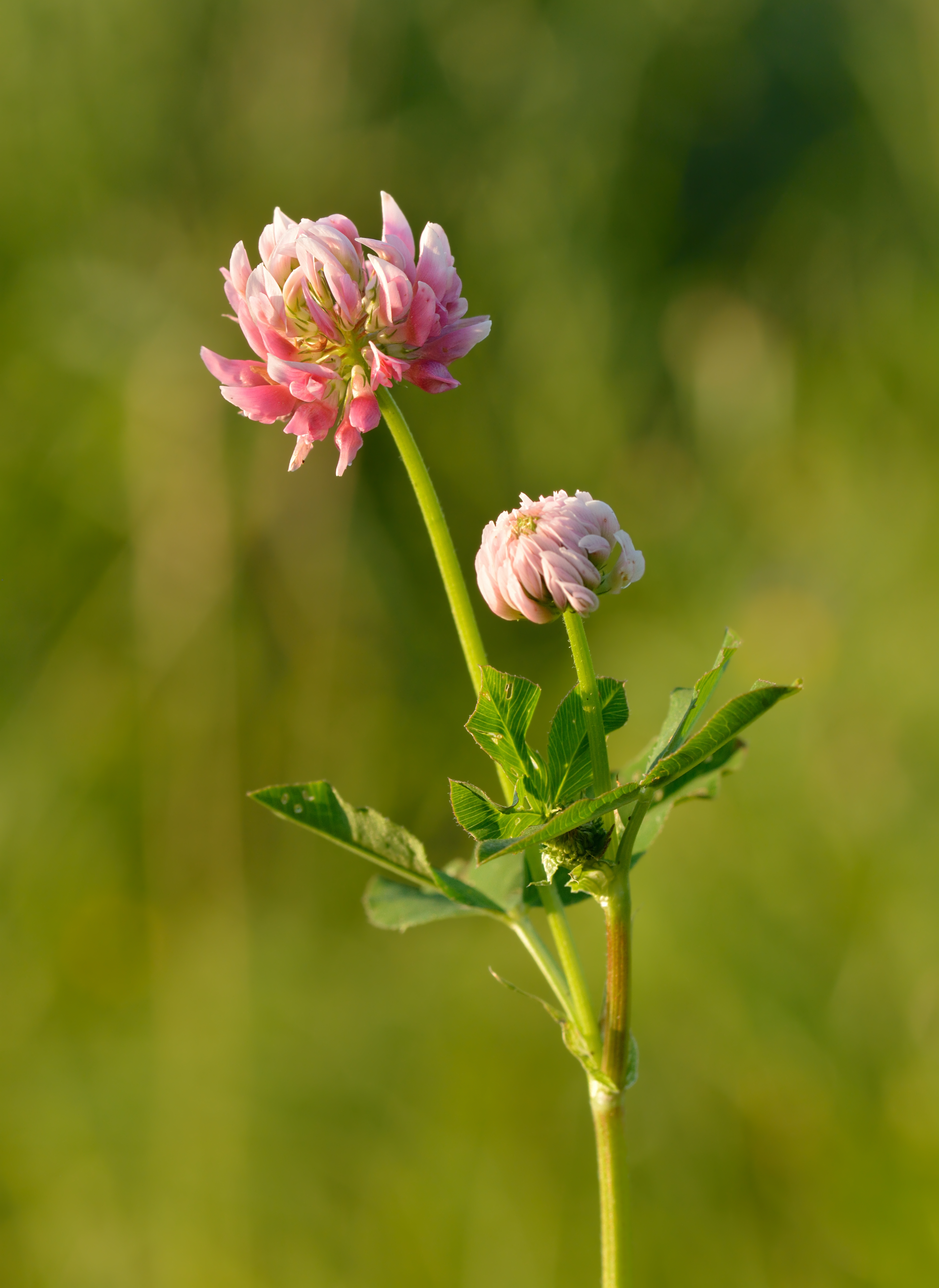 Alsike clover (Trifolium hybridum). Vääna landscape reserve.